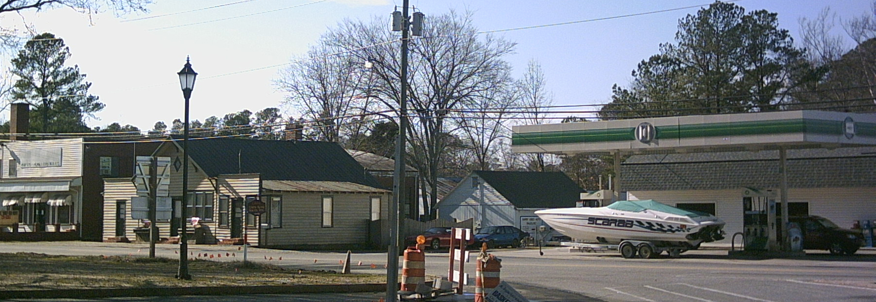 Image taken by me for Wikipedia.